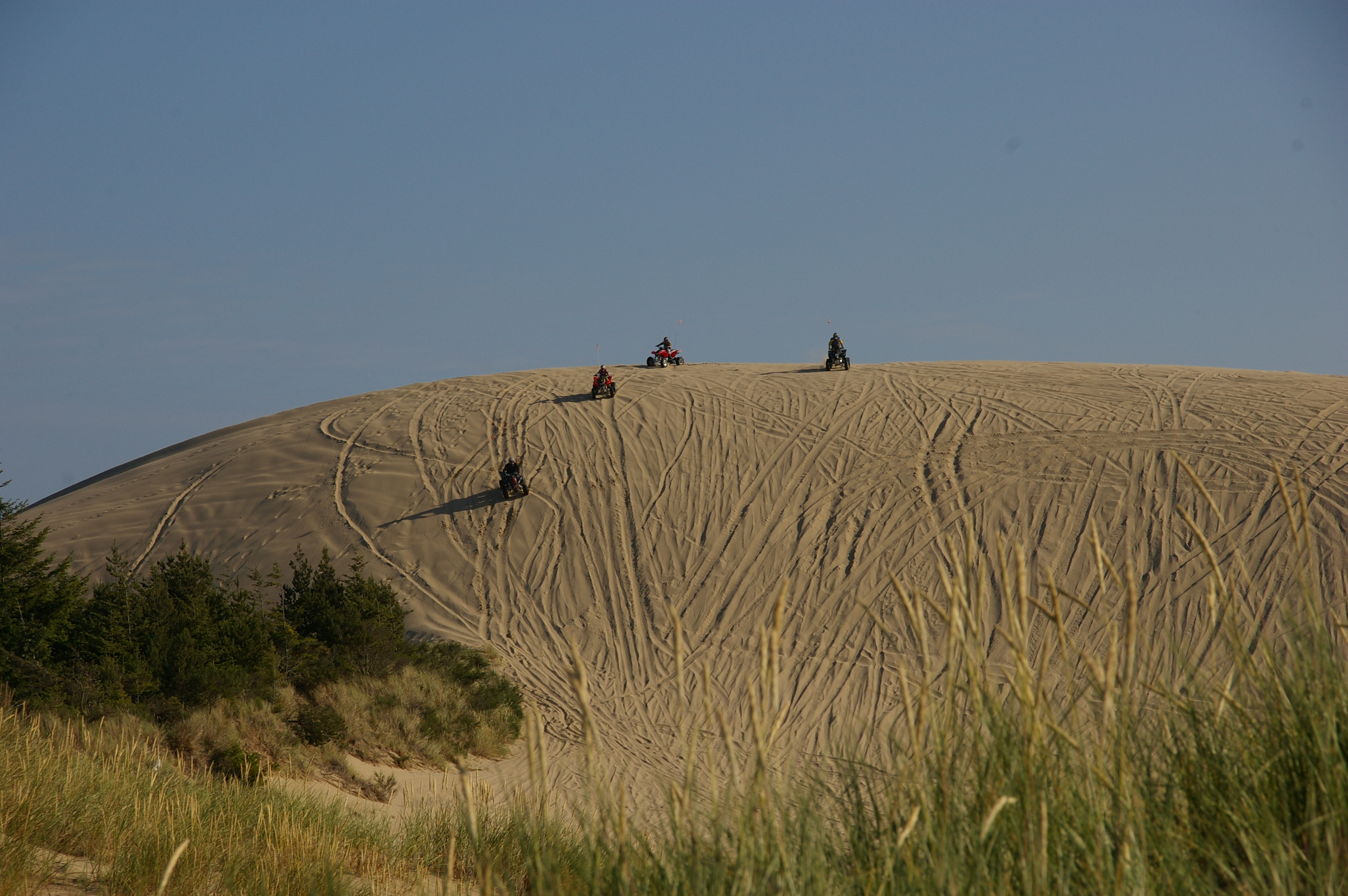 Oregon Dunes National Recreation Area - Spinreel OHV campground day-use area.